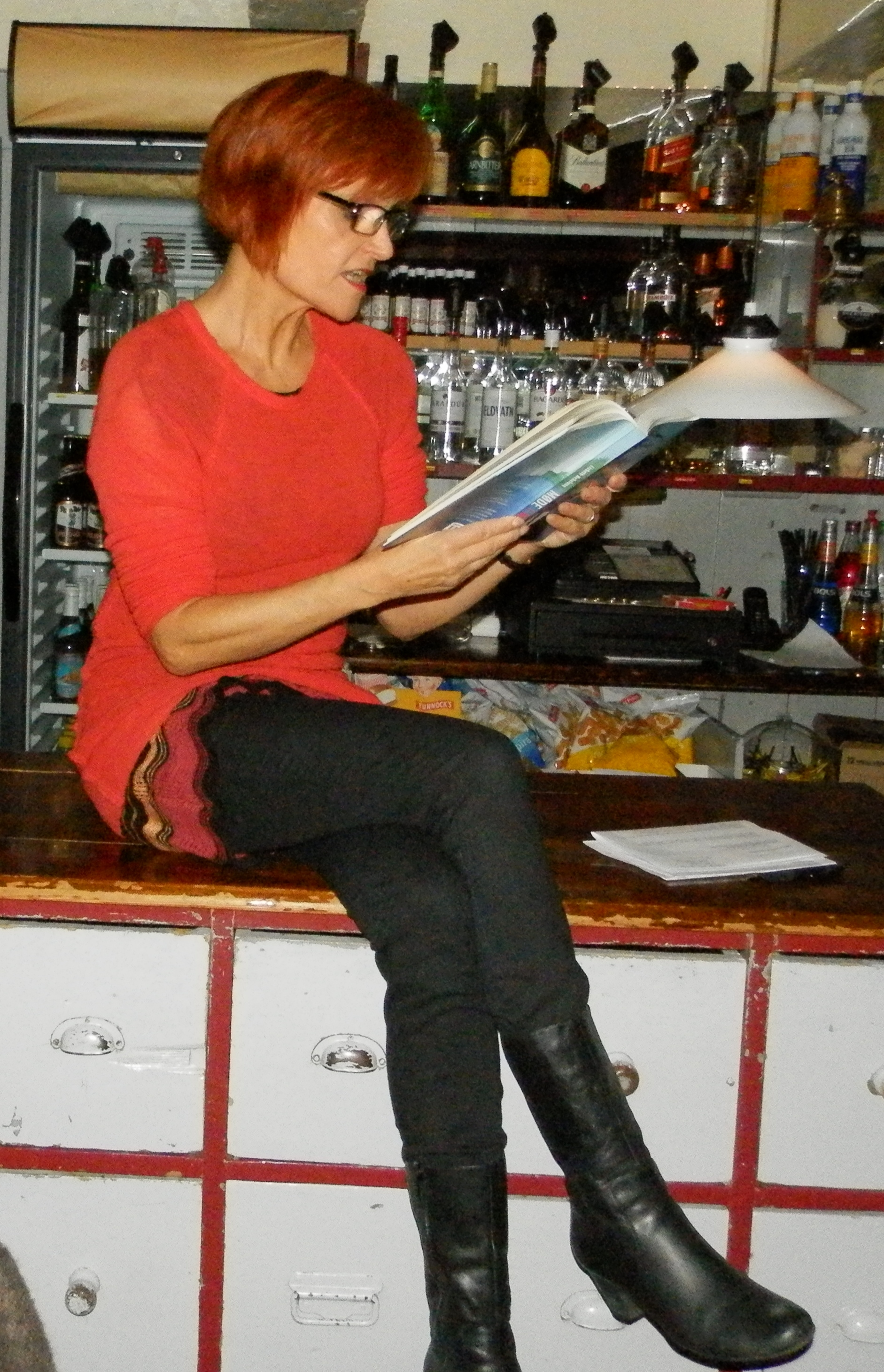 Lisbeth Nebelong is a Danish writer. She grew up in Denmark but also in the Faroe Islands for a few years, while her father was working there. She has written a trilogy, all of these novels take place in the Faroe Islands as well as in other Nordic countries.